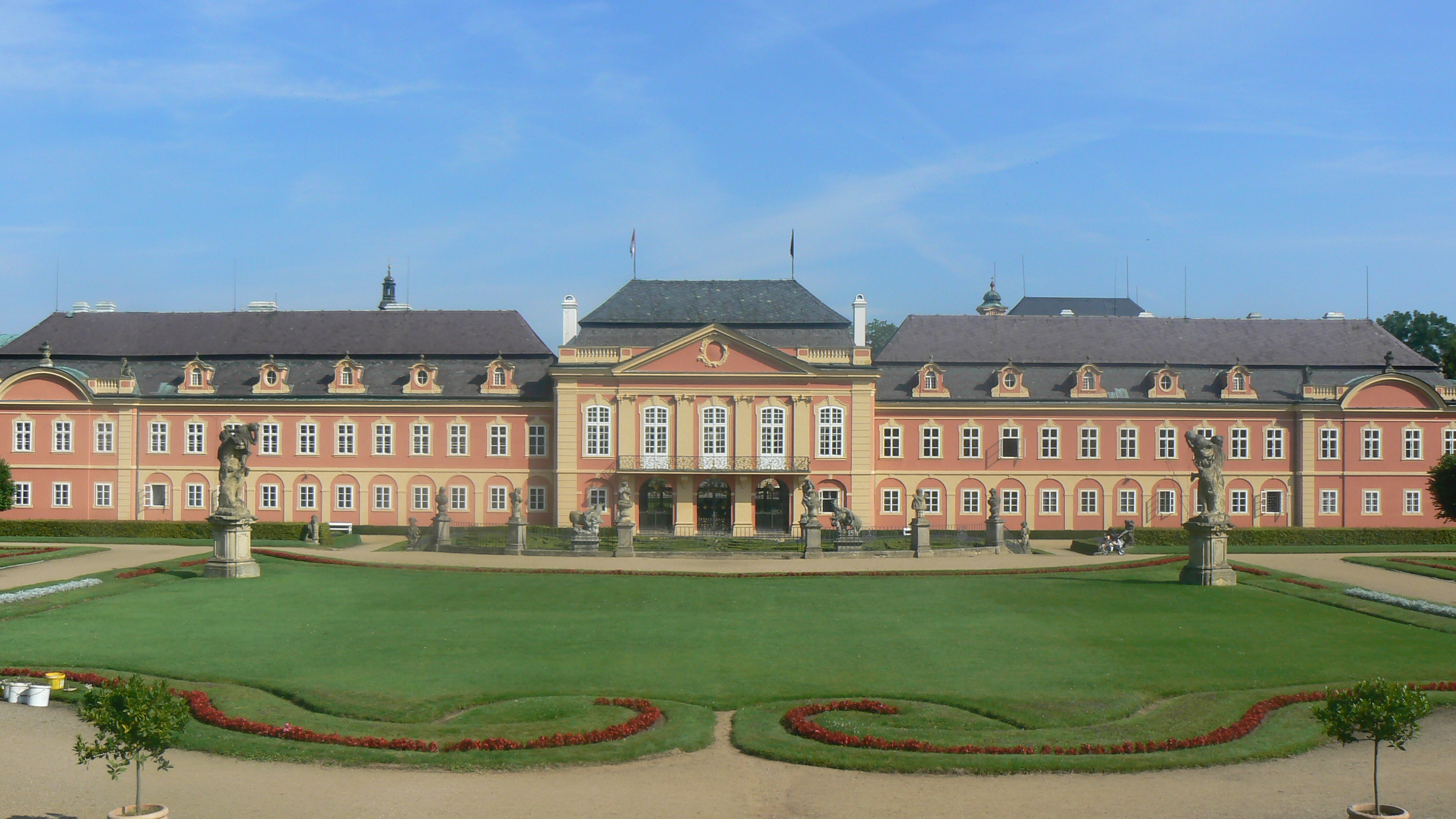 Dobříš Chateau , Příbram District, Czech Republic